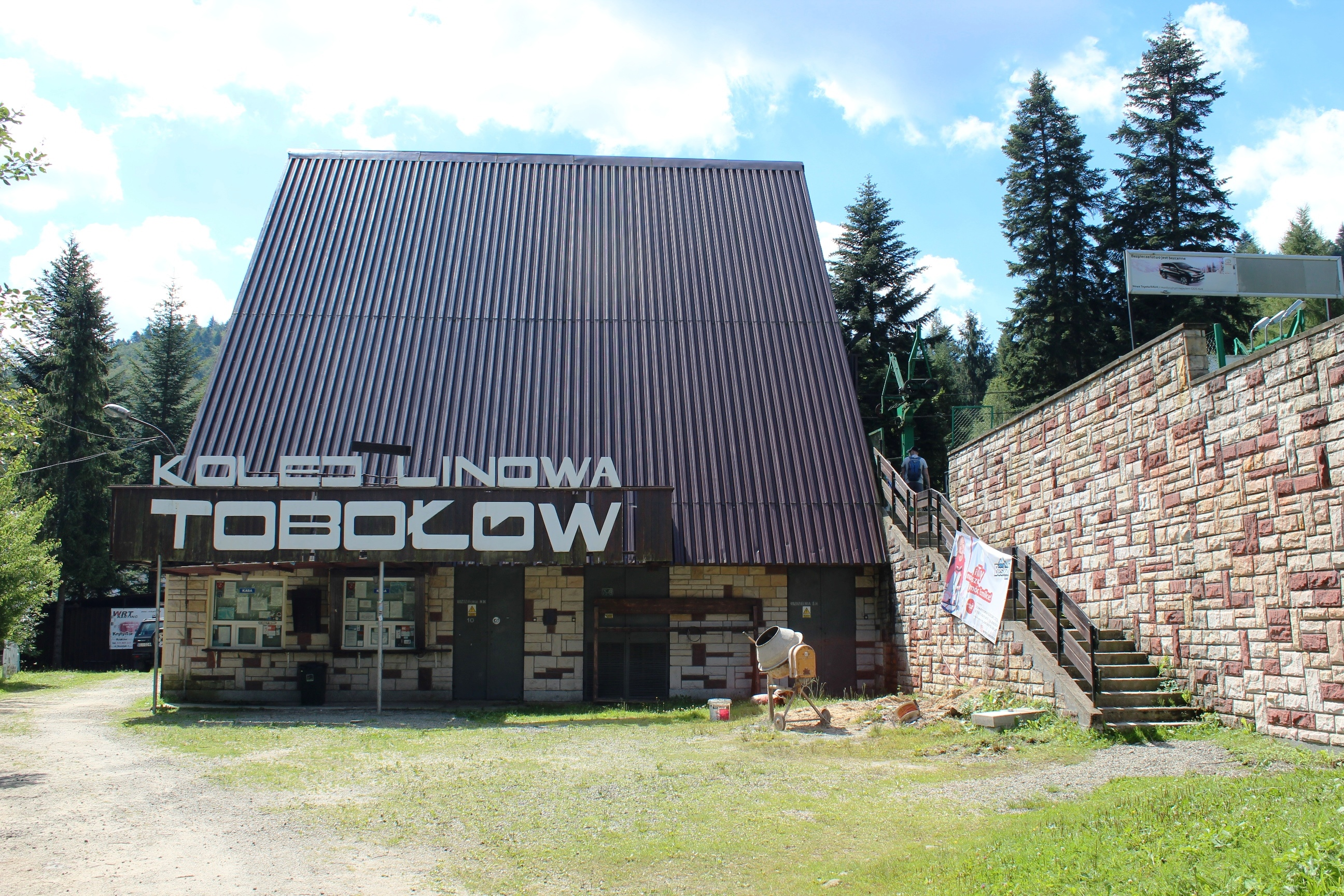 Tobołów Chairlift